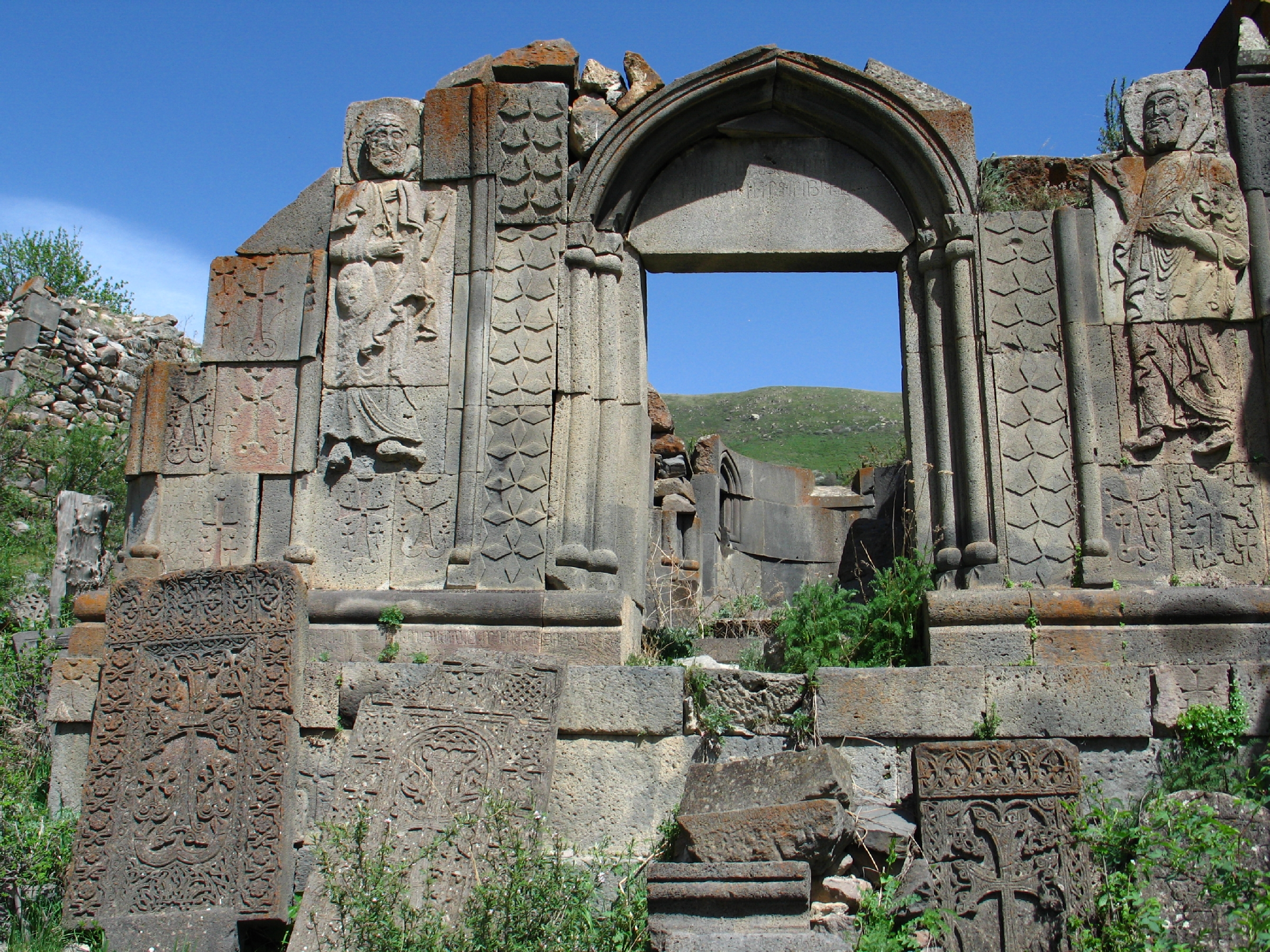 Աղջոց վանք 99.1/1.1